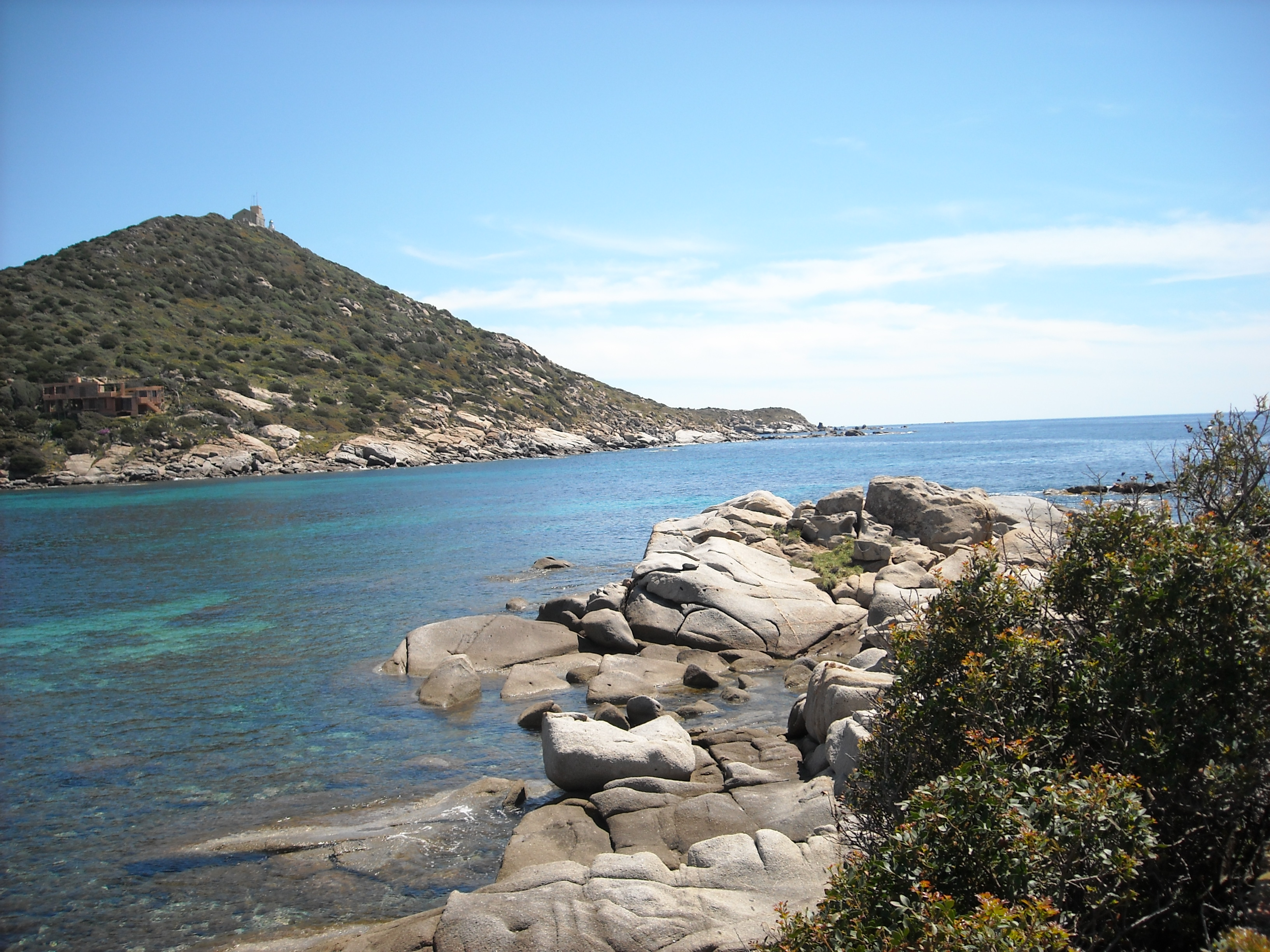 West side of Cape Carbonara, Sardinia, Italy.